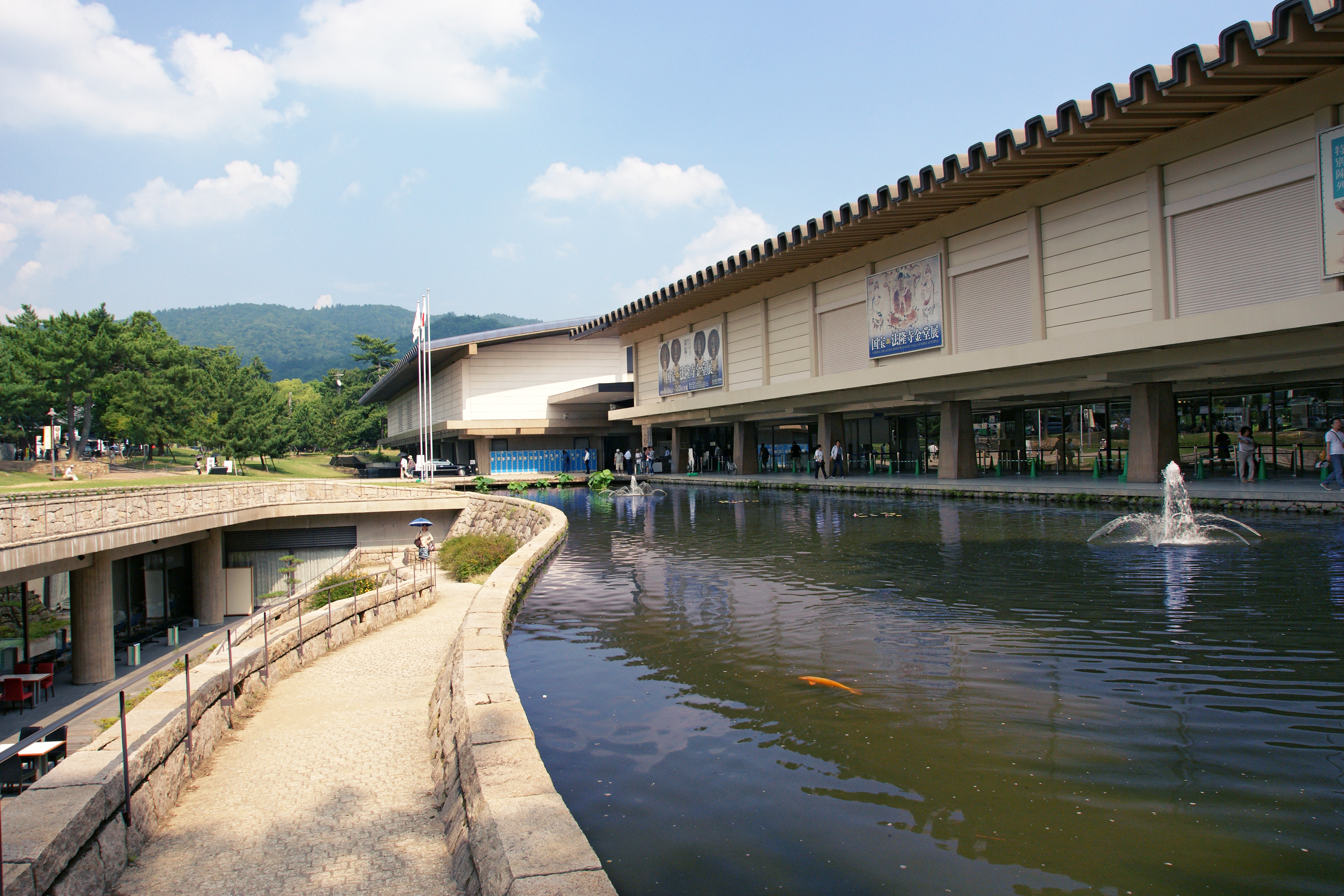 Nara National Museum in Nara, Nara prefecture, Japan